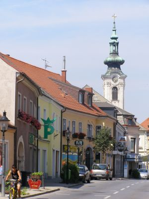 The main street in Hainburg an der Donau (Austria)